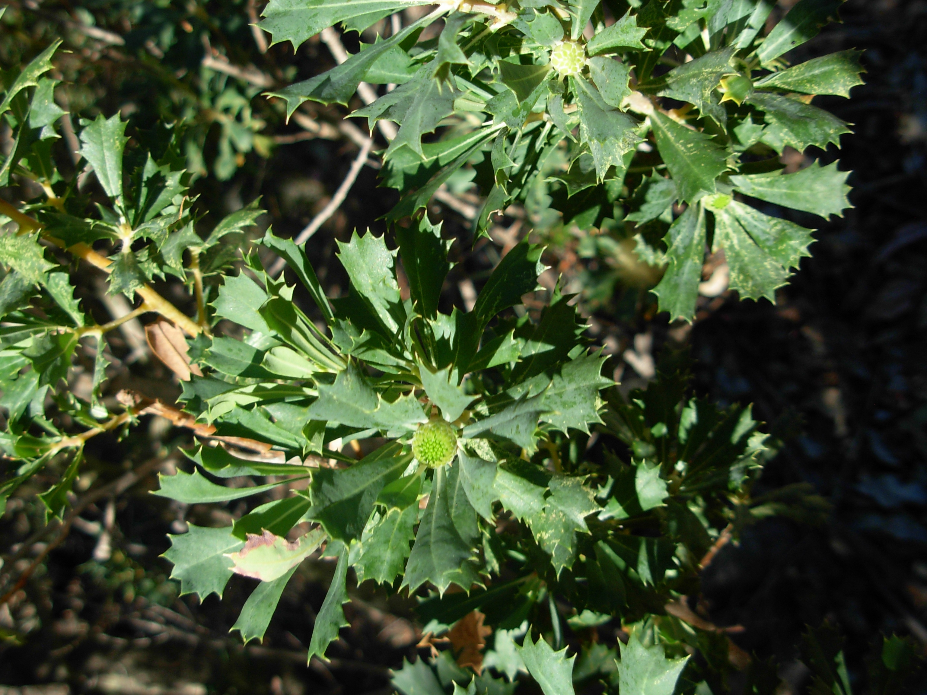 Foliage and very early buds of Banksia sessilis var. cygnorum, Kings Park, Perth, Western Australia